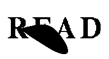 This image shows the context effects by blocking out the letters E and A in the word READ. You assume behind the ink blot the letters are in their full state because of the word superiority effect.